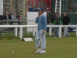 Catriona Matthew during 2007 Womens British Open at St. Andrews